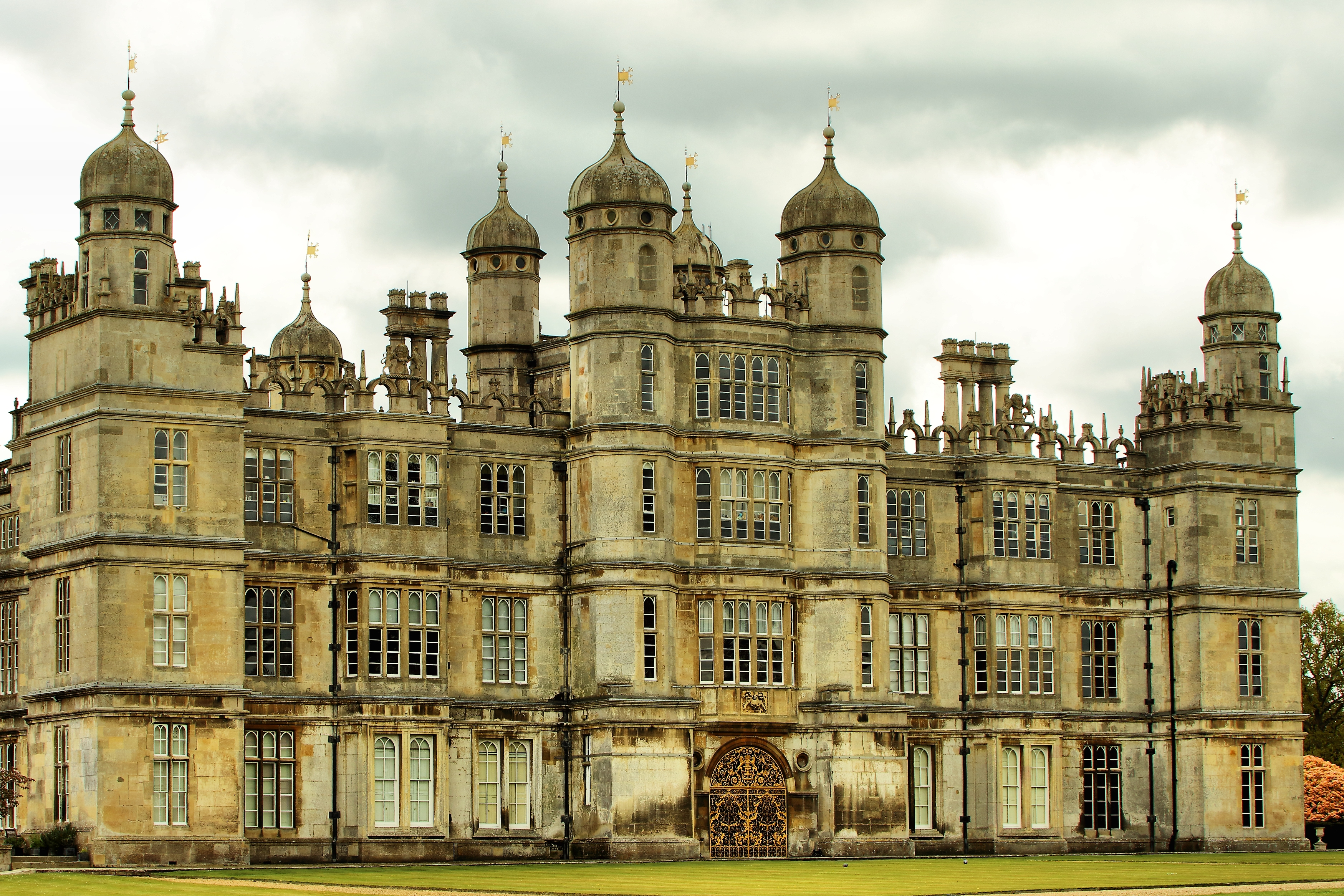 Burghley House - Lincolnshire - Explored